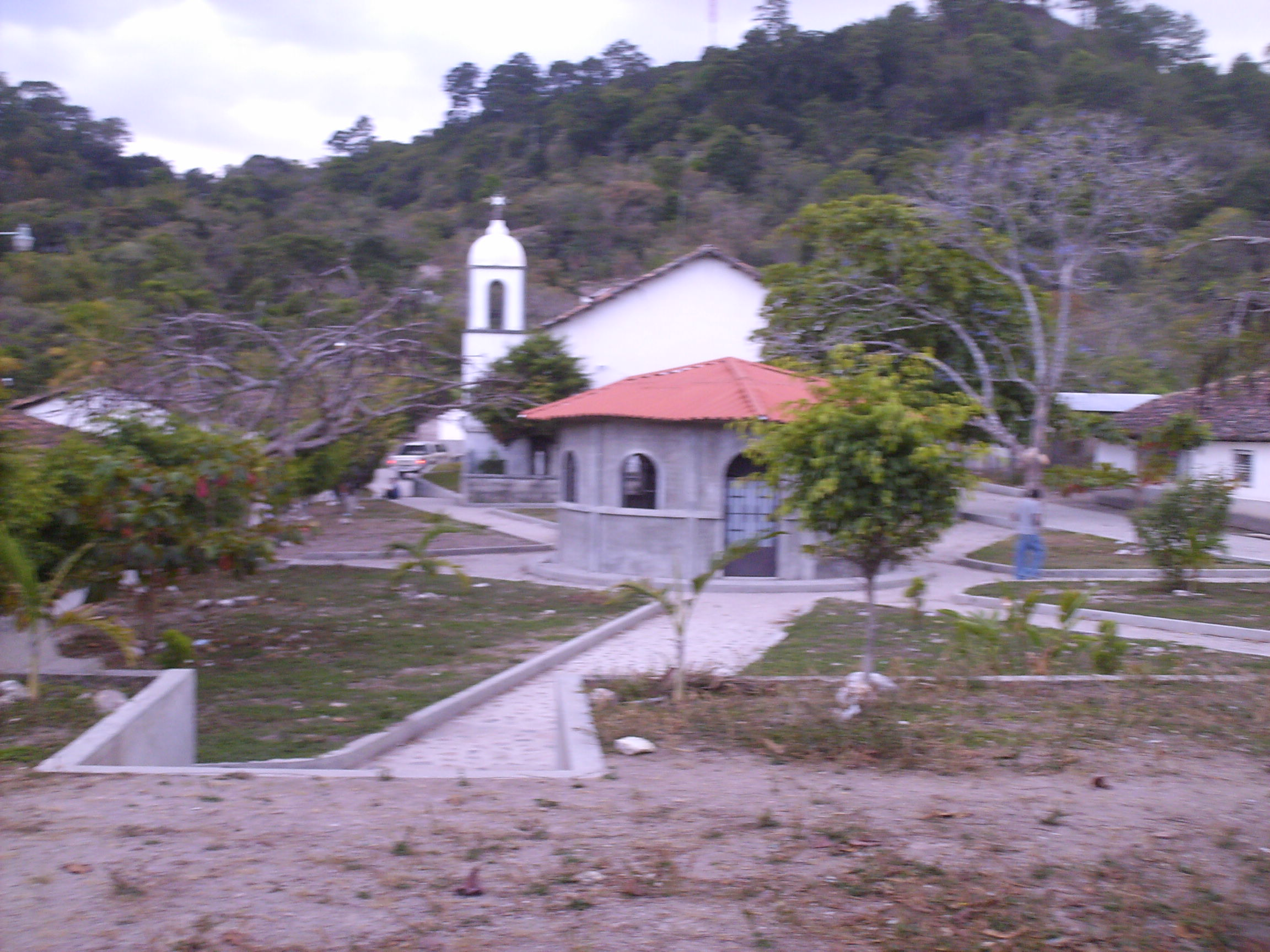 San Juan Guarita, municipality in the Honduran department of Lempira.